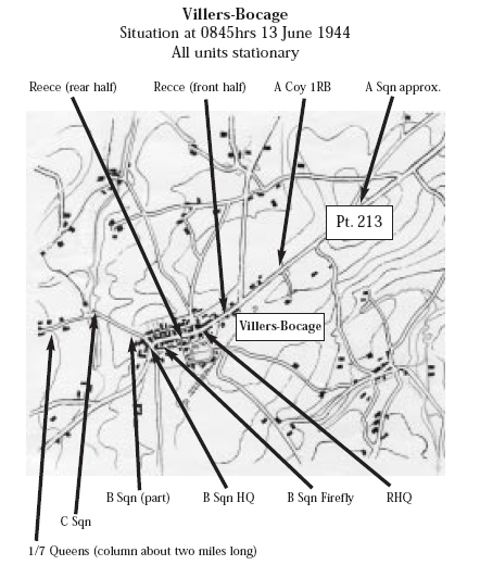 Map shows the positions of the 4th County of London Yeomanry, A Company, 1st Rifle Brigade and the 1/6 Queen's Regiment prior to the attack launched by Michael Wittmann. The map was possibly created either by The Sharpshooters Yeomanry Association or the late Lieutenant-Colonel Charles Pearce.